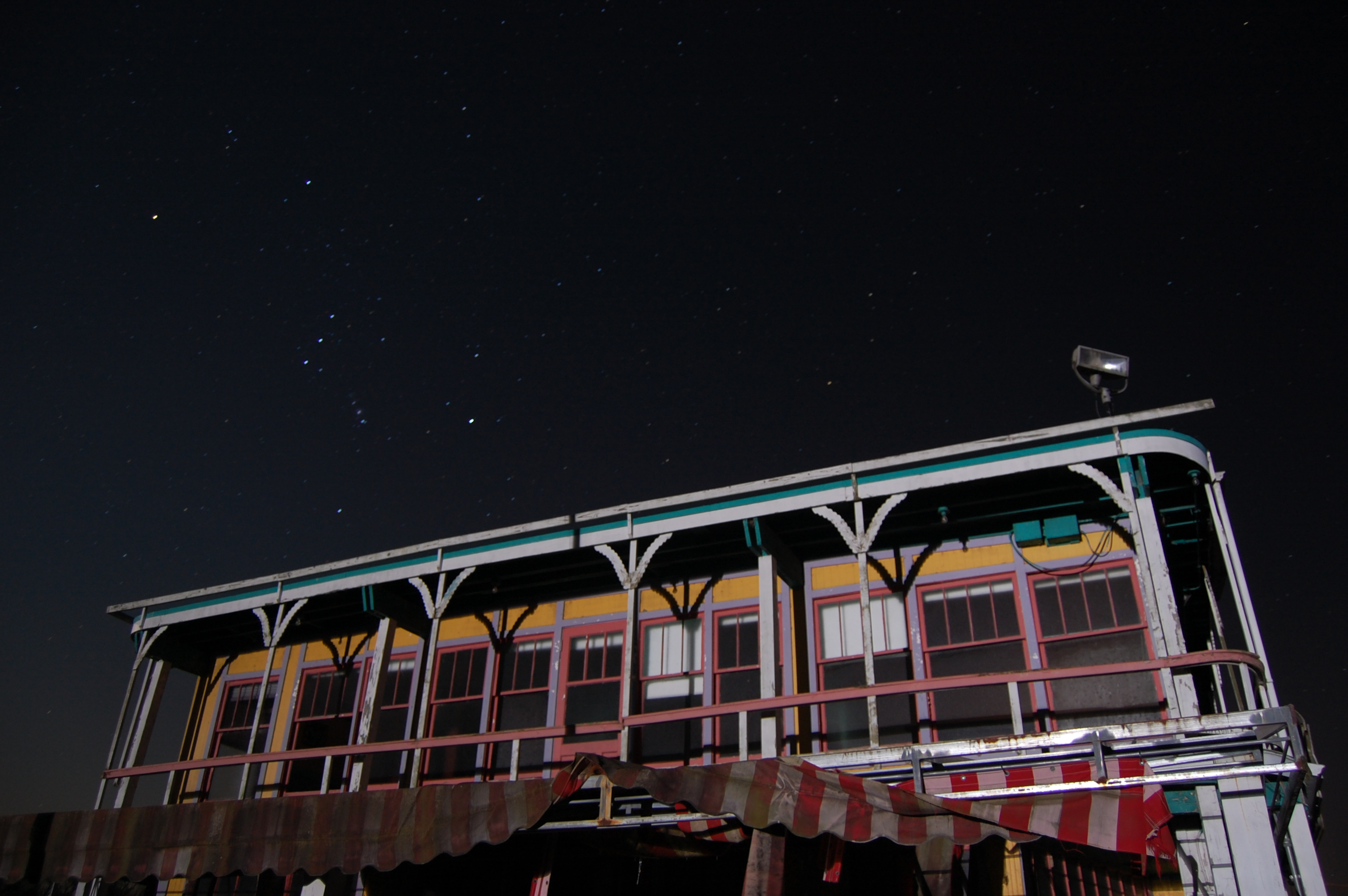 An extended exposure shot I took one night on aboard the Goldenrod.